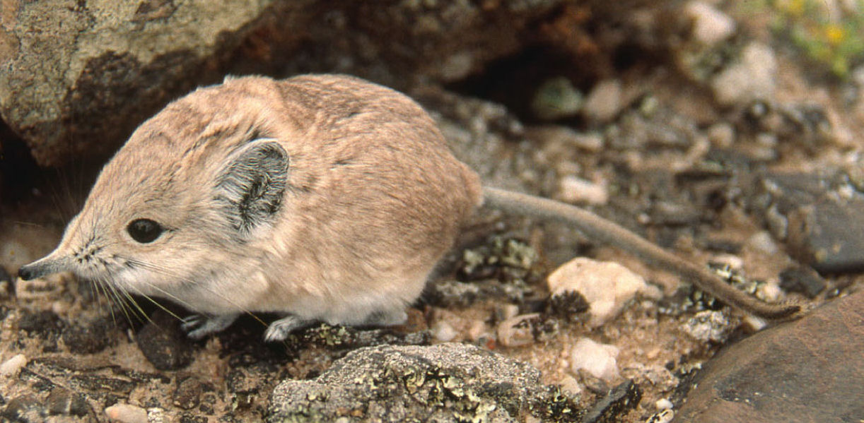 Macroscelides proboscideus flavicaudatus captured in the Namib Desert at Wlotzkasbaken, Namibia, on 25 May 2000.